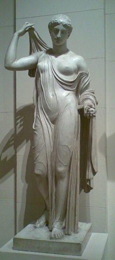 Venus with apple by Callimachus. Plaster cast in Pushkin museum